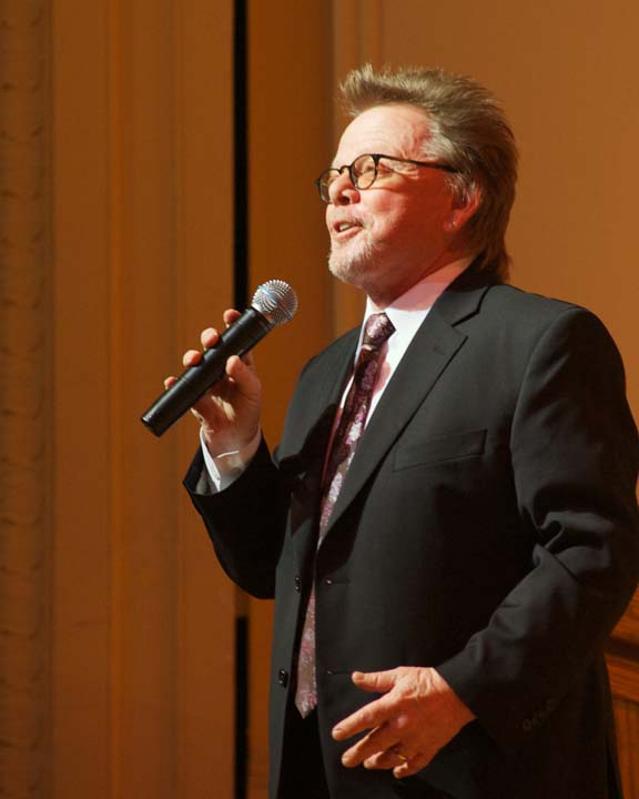 Paul Williams, president of ASCAP, at the 2011 ASCAP concert